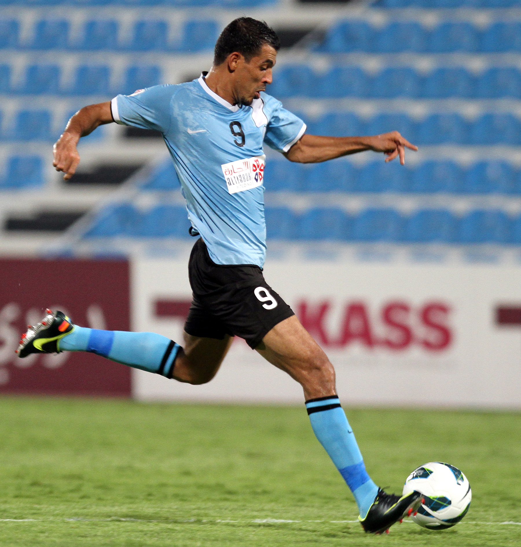 Al Wakra's Iraqi professional Younis Mahmoud runs with the ball during a Qatar Stars League match. Picture by Vinod Divakaran